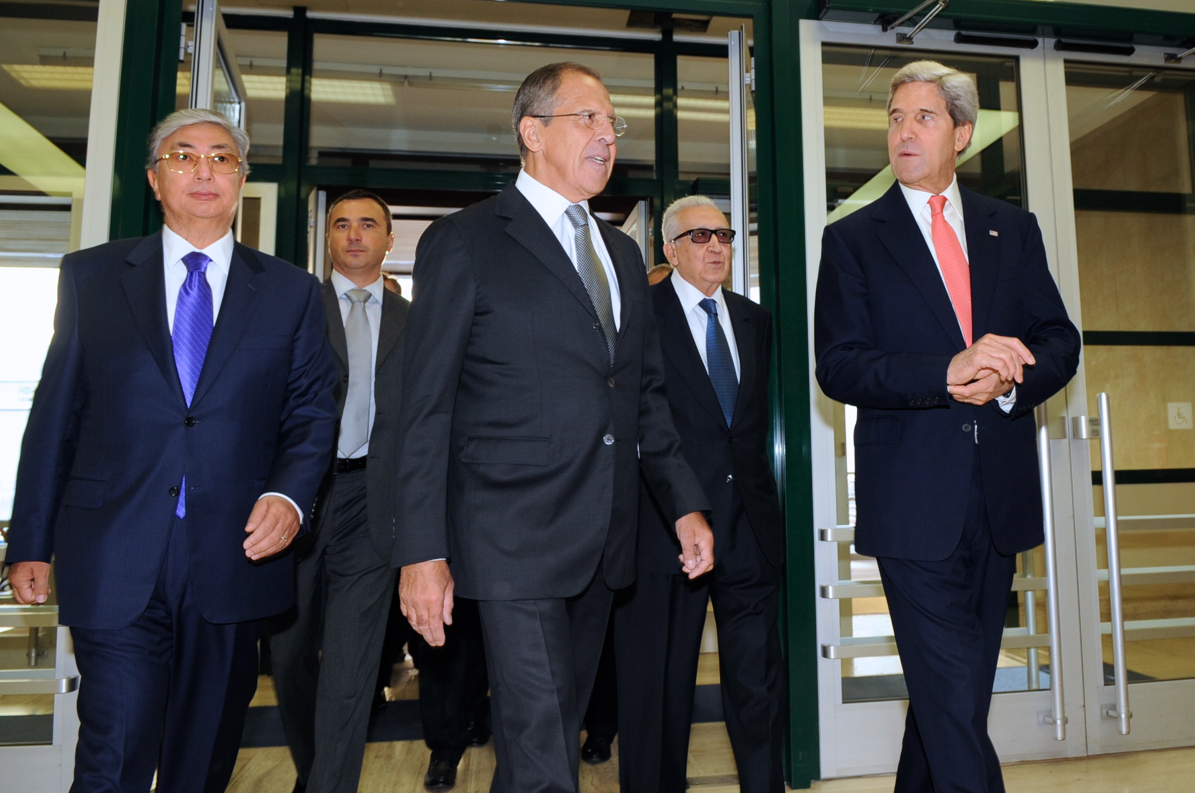 9:35 a.m., September 13, 2012 - U.S. Secretary of State John Kerry and Russian Foreign Minister Sergey Lavrov, accompanied by Director-General of the United Nations Office at Geneva Kassym-Jomart Tokayev and UN Special Envoy for Syria Lakhdar Brahimi, arrive at UN headquarters for a trilateral meeting focused on reaching a political solution to the Syrian civil war. [State Department photo/ Public Domain]